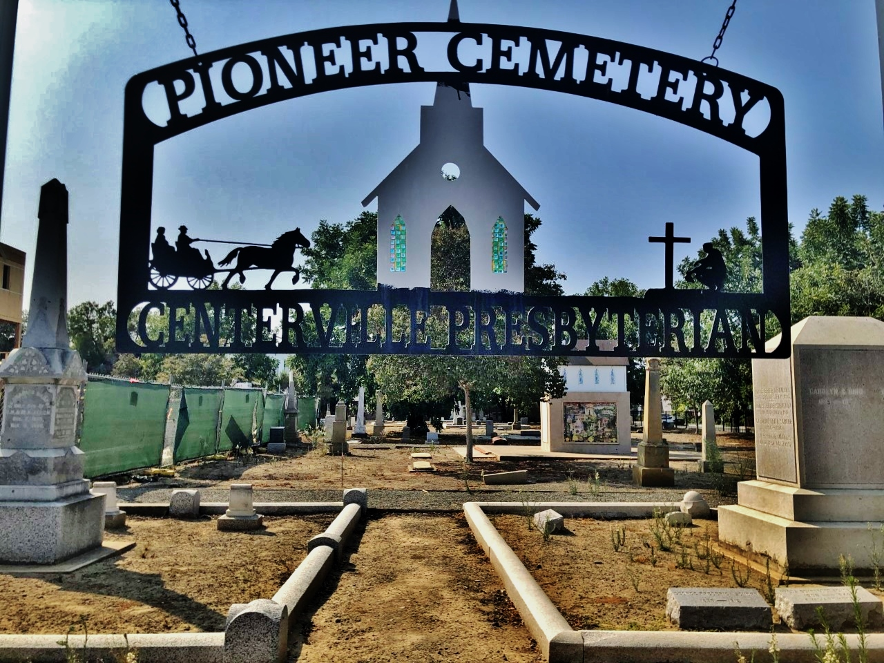 Pioneer Cemetery sign, with the little white church of Centerville Presbyterian Church that once stood near the cemetery. Centerville Presbyterian still manages the historic cemetery. Photo courtesy of Ned Rendell.